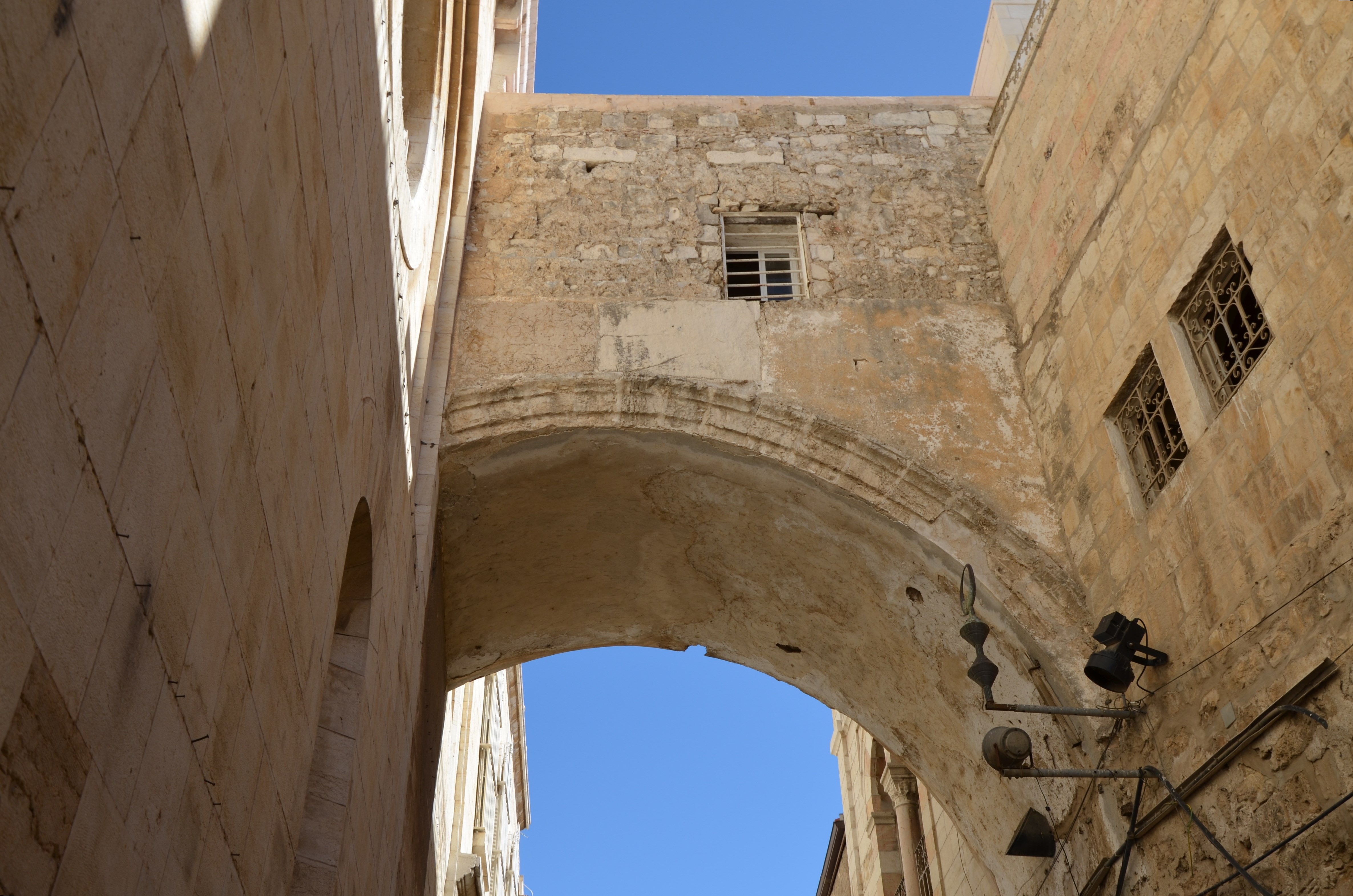 The Ecce Homo arch, a triple-arched gateway, built by Hadrian, as an entrance to the eastern Forum of Aelia Capitolina, via Dolorosa, Jerusalem